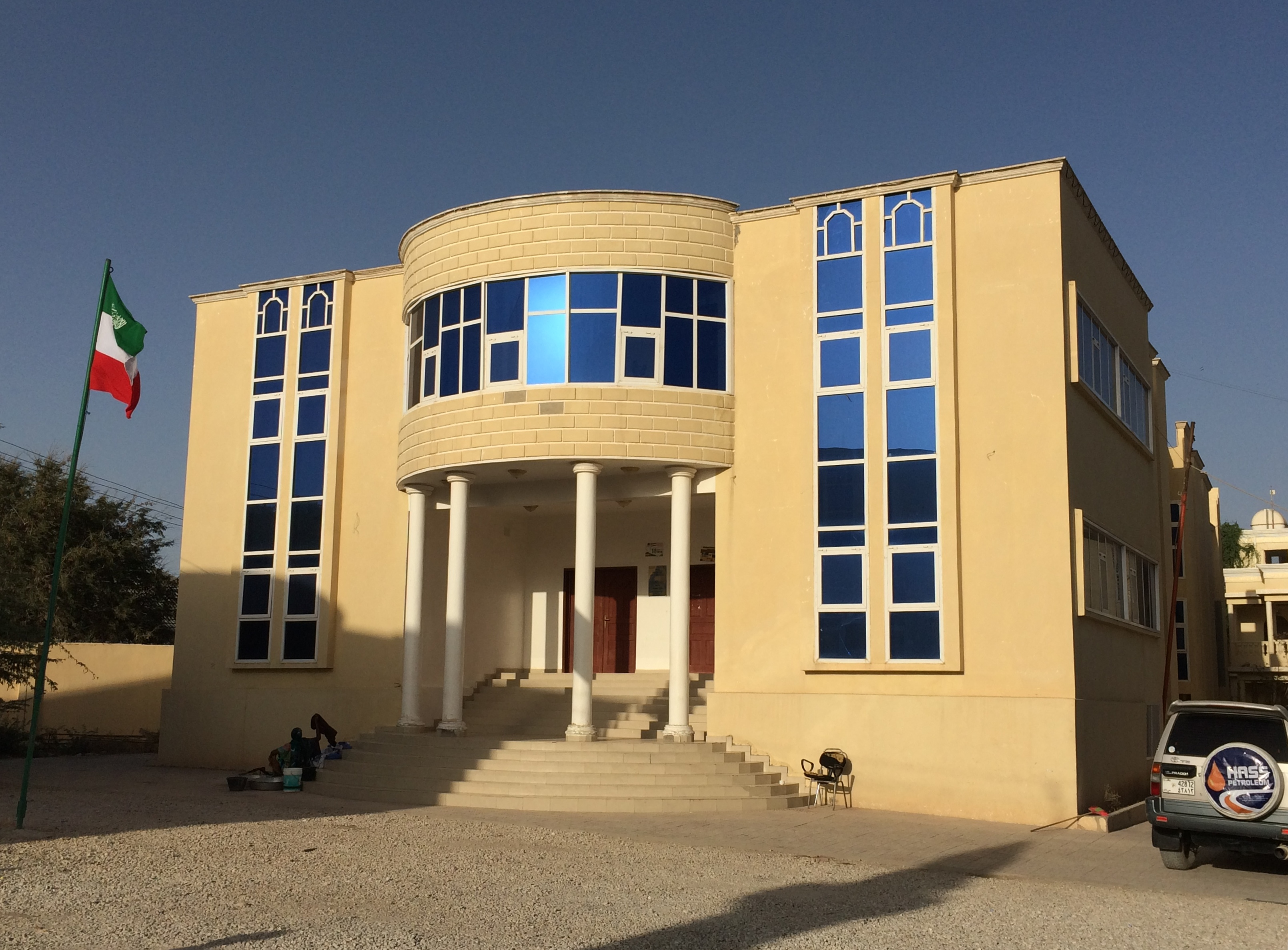 The House of Representatives (Lower House of Parliament) in Hargeisa, capital of Somaliland (Somalia).